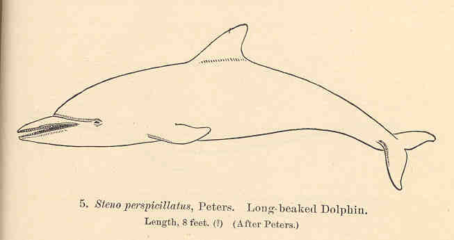 Steno perspicillatus, Peters. Long-beaked Dolphin . Length 8 feet (?) (After Peters Subject: Stenella longirostris, Dolphins Tag: Aquatic Mammals